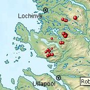 Scottish mountain peaks: Lochinve to Ullapool